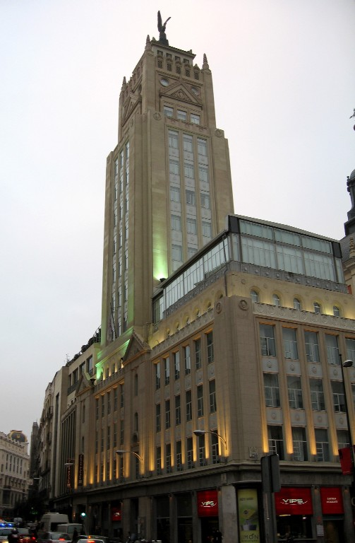 La Unión y el Fénix Español Building, in Madrid (Spain). Projected in 1928 by Modesto López Otero and built from 1928 to 1931 as La Unión y el Fénix Español (insurance company) headquarters.